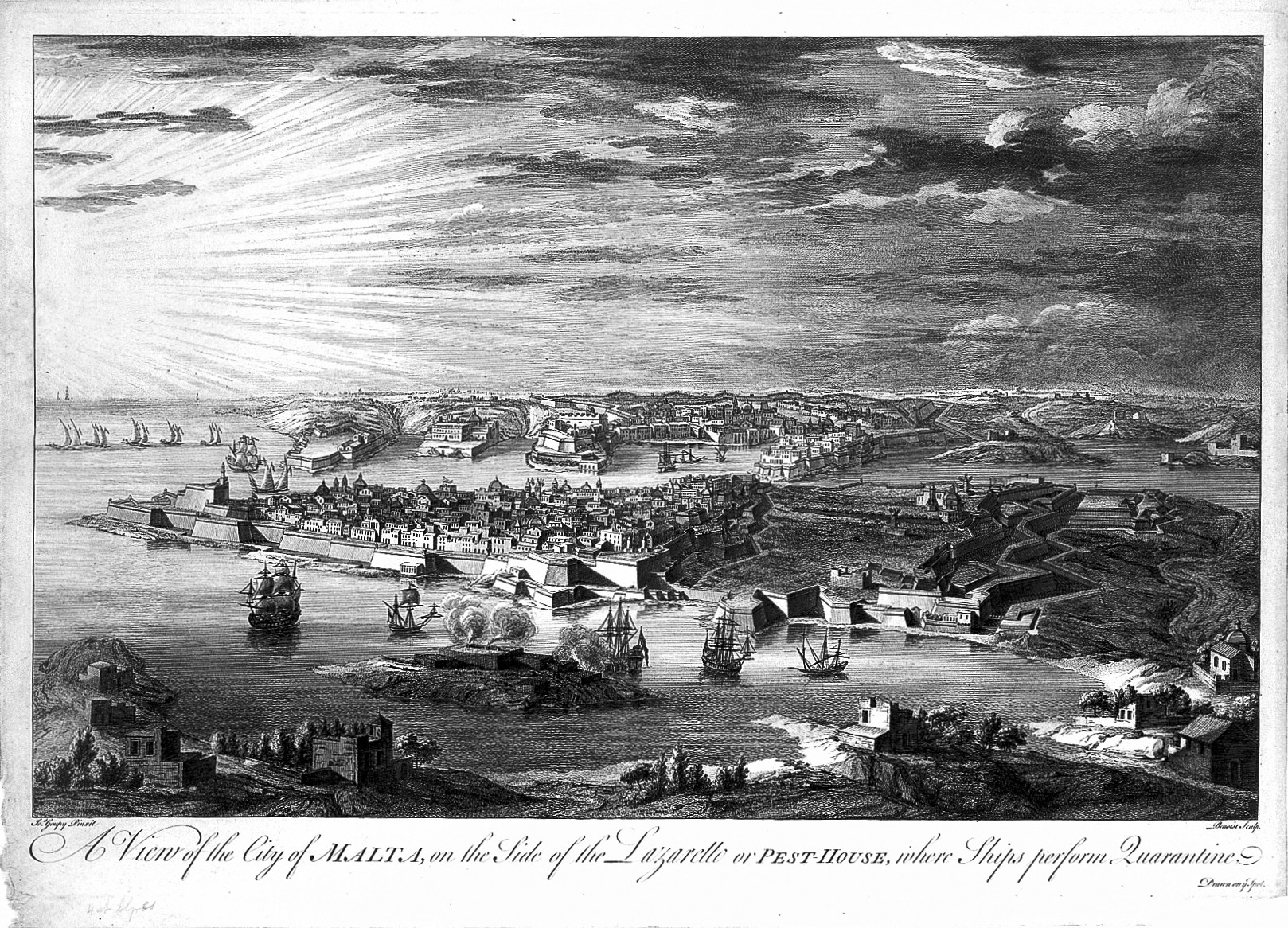 Malta: view of the quarantine area. Etching by M-A. Benoist, c. 1770, after J. Goupy, c. 1725. Iconographic Collections Keywords: Joseph Goupy; Joseph Goupy; M-A. Benoist